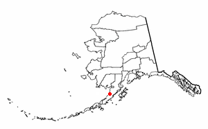 Adapted from Wikipedia's AK borough maps by Seth Ilys.